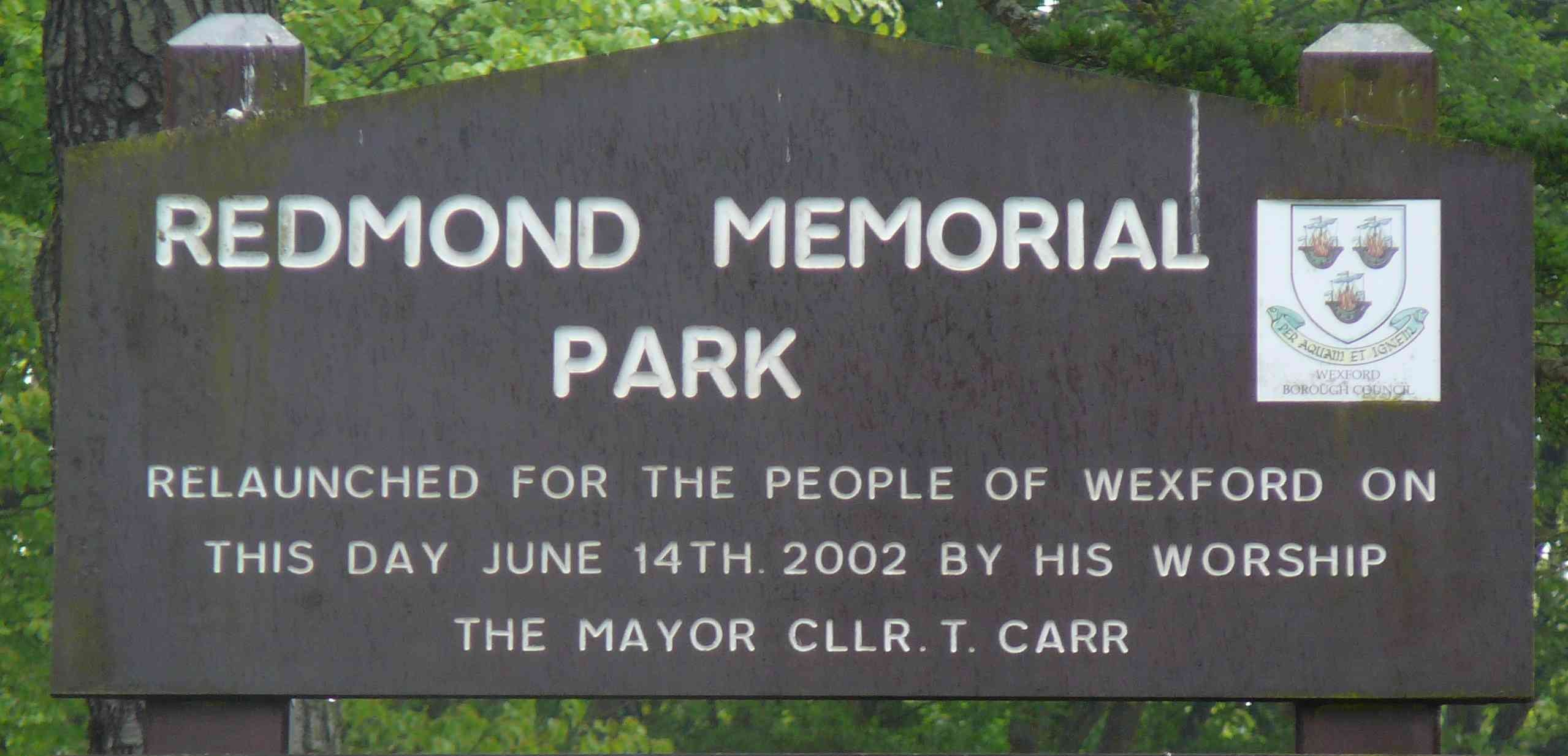 Namesign at the entrance to the Redmond Memorial Park, off the Spawell Road, Wexford city. The park is dedicated to the Redmond family, the Members of Parliament William Redmond, John Edward Redmond, William Archer Redmond and John Redmond, of the Irish Parliamentary Party.